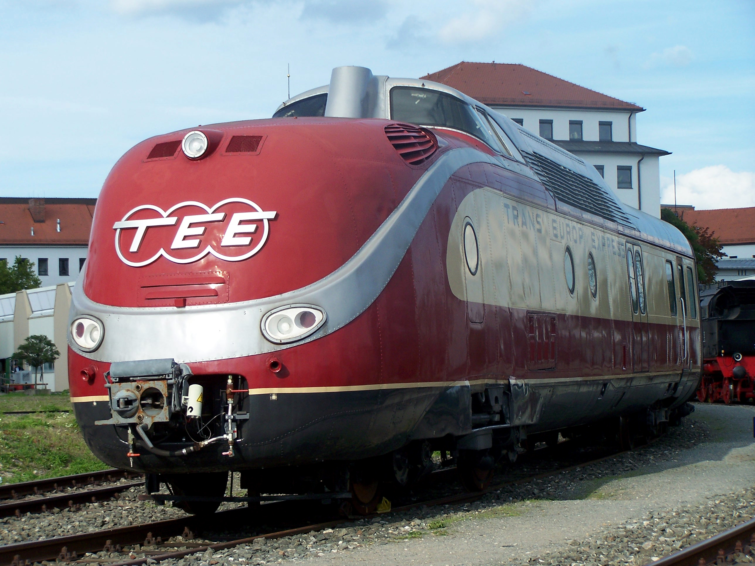 A Diesel motor coach of the VT 11.5 (BR 601) in the Transport Museum in Nuremberg